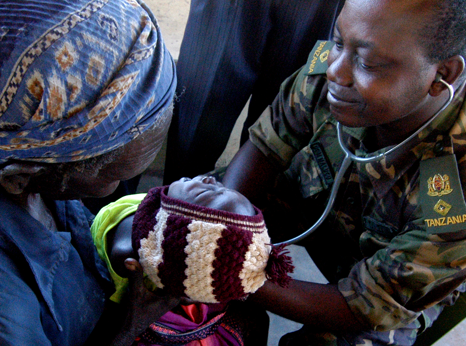 Tanzania army Lt. Col. Dr. David Malugu checks a young boy during a medical civic action project as part of exercise Natural Fire 2006 in Riongo, Kenya, Aug. 12, 2006.